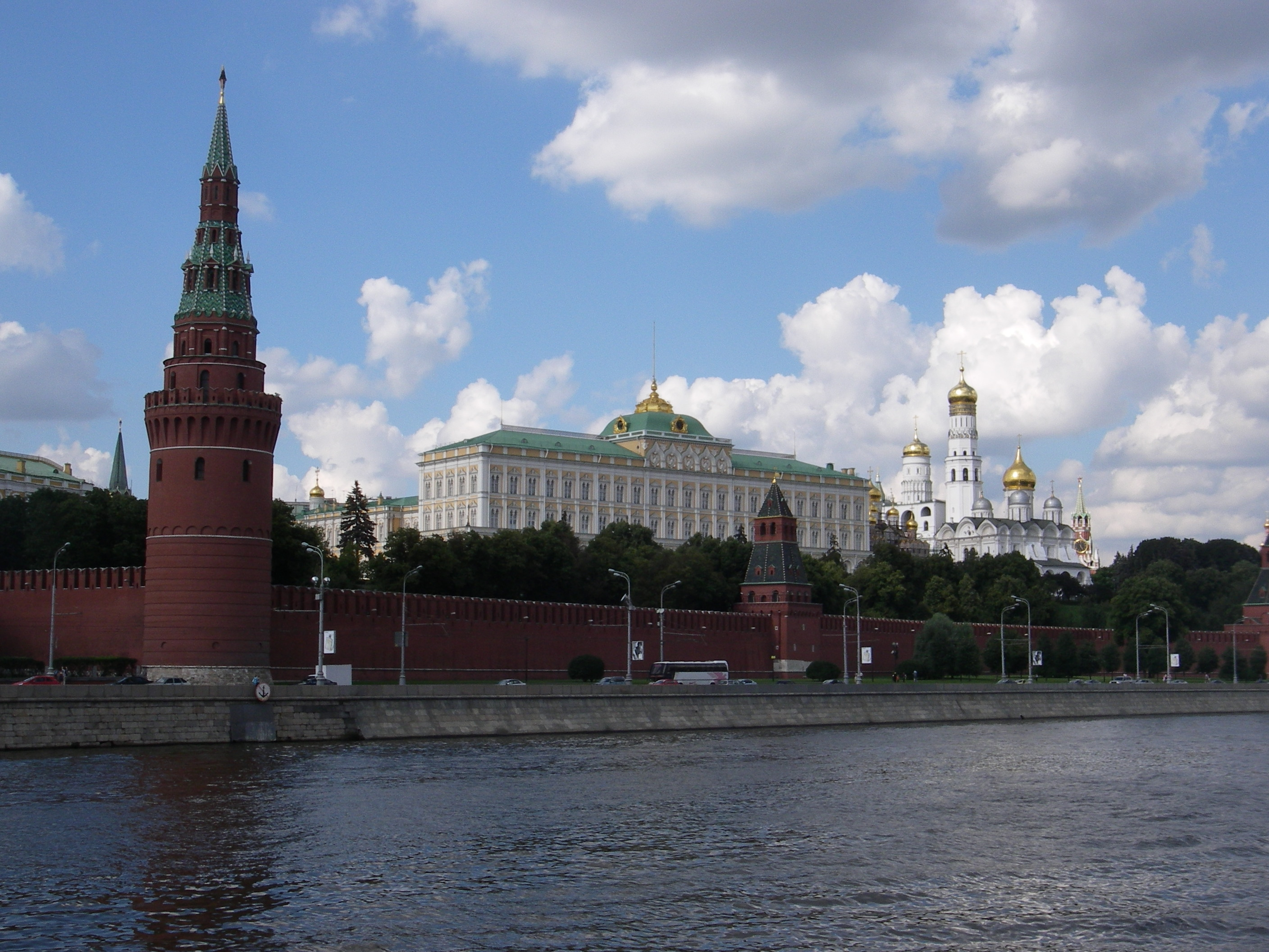 Moscow Kremlin from the river